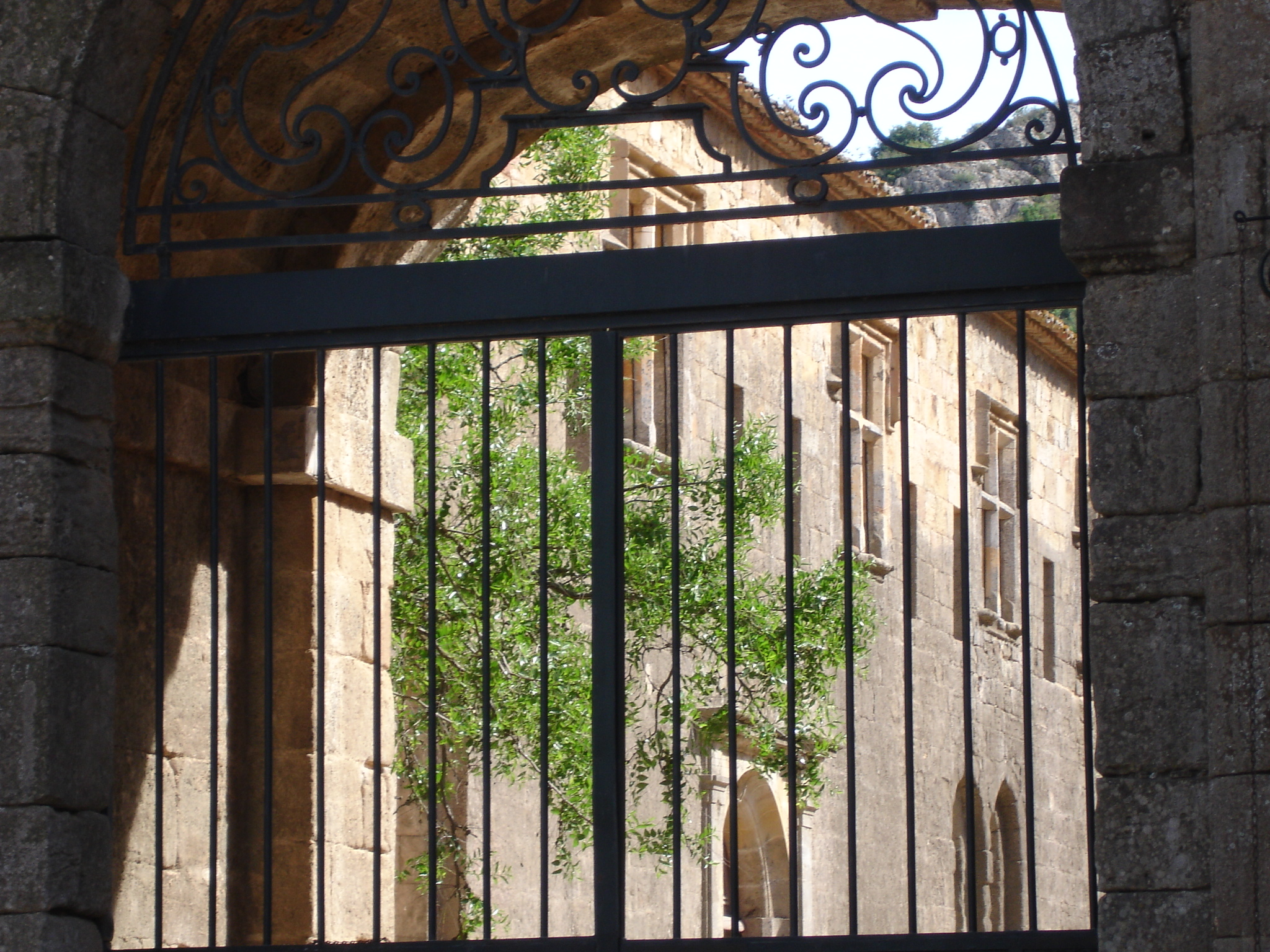 France, Aude, Fontfroide Abbey